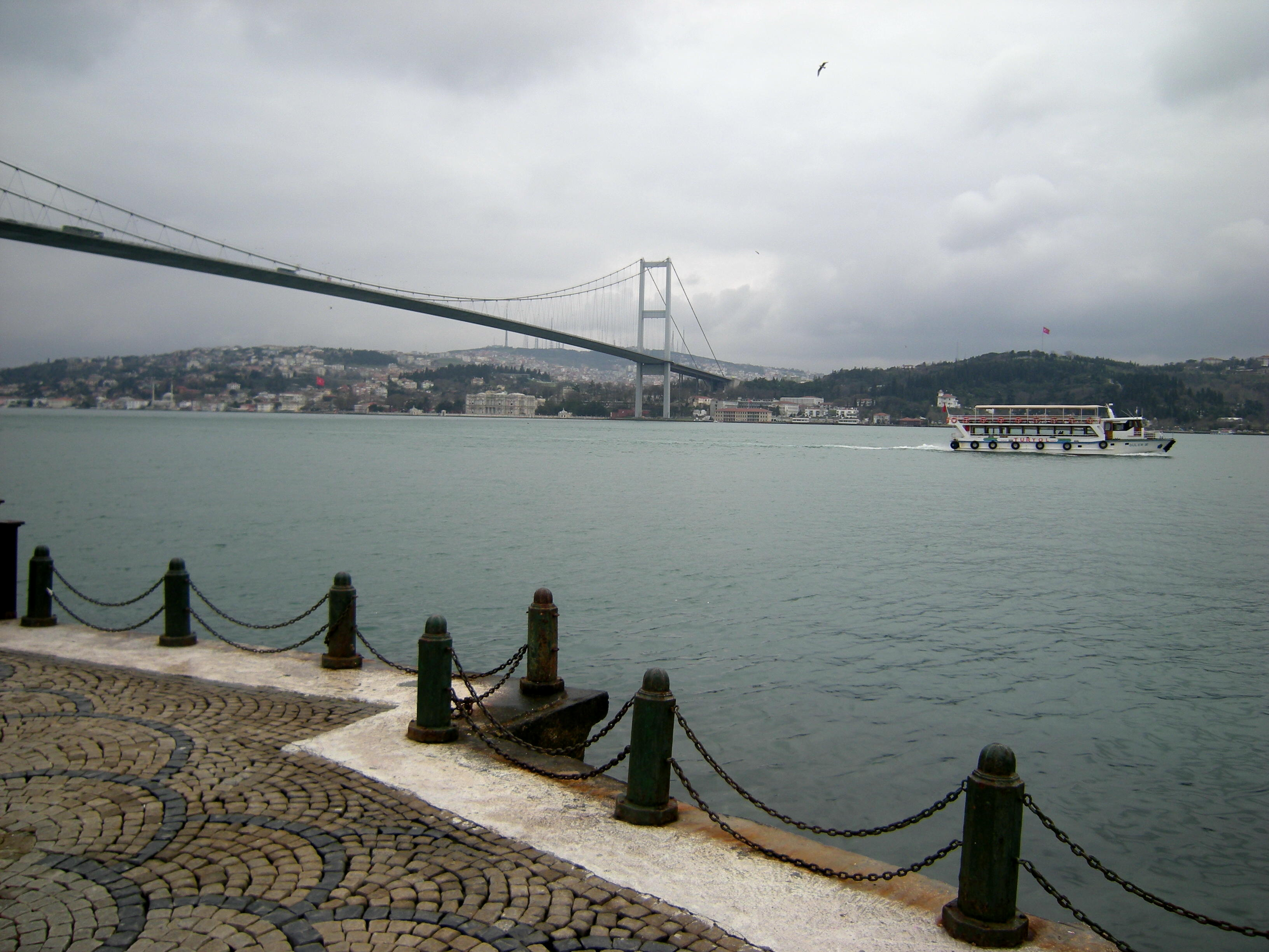 Bosporus Bridge from Ortaköy (İstanbul Boğazı)